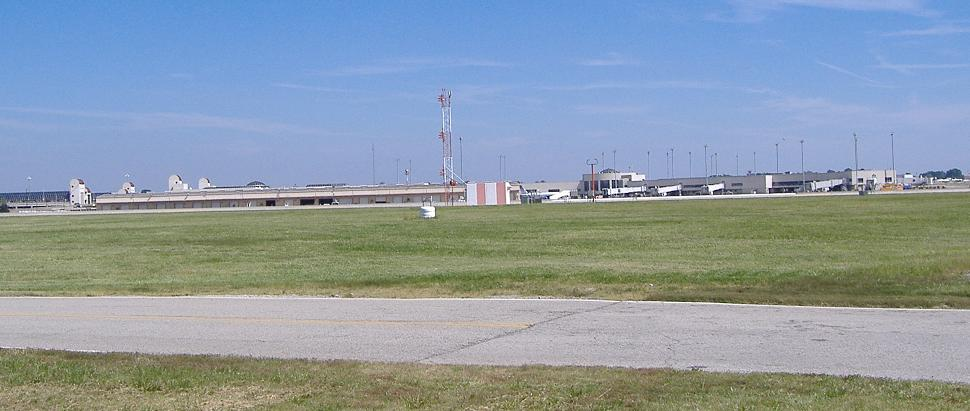 Standiford Field, in Louisville.